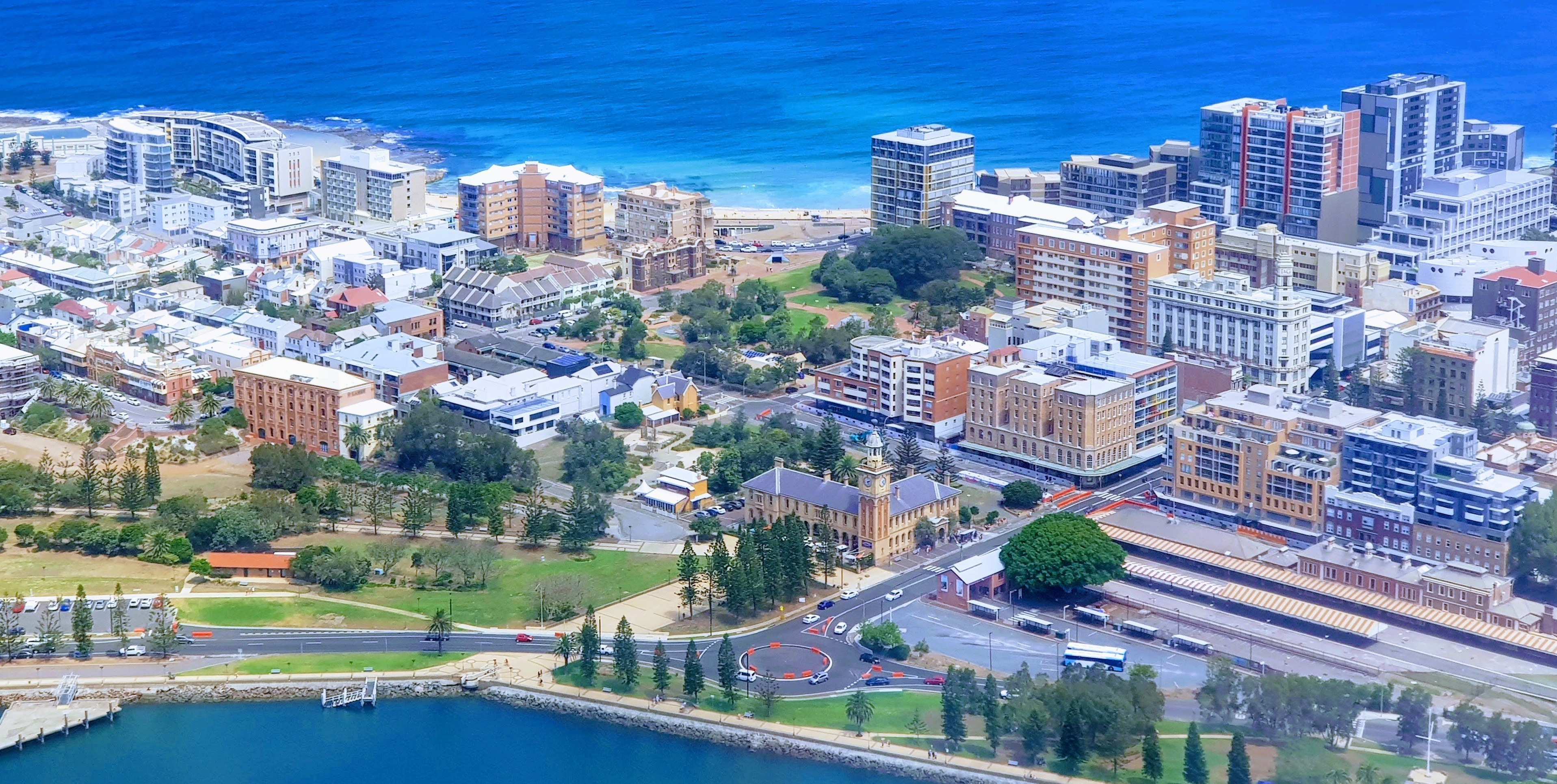 Aerial image of Newcastle, capturing the old station, customs house and beaches